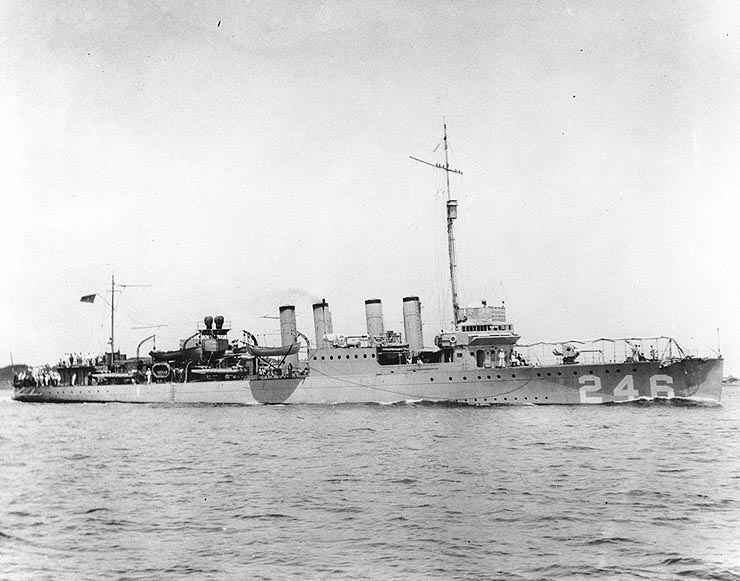 The U.S. Navy destroyer USS Bainbridge (DD-246) underway, circa 1921.